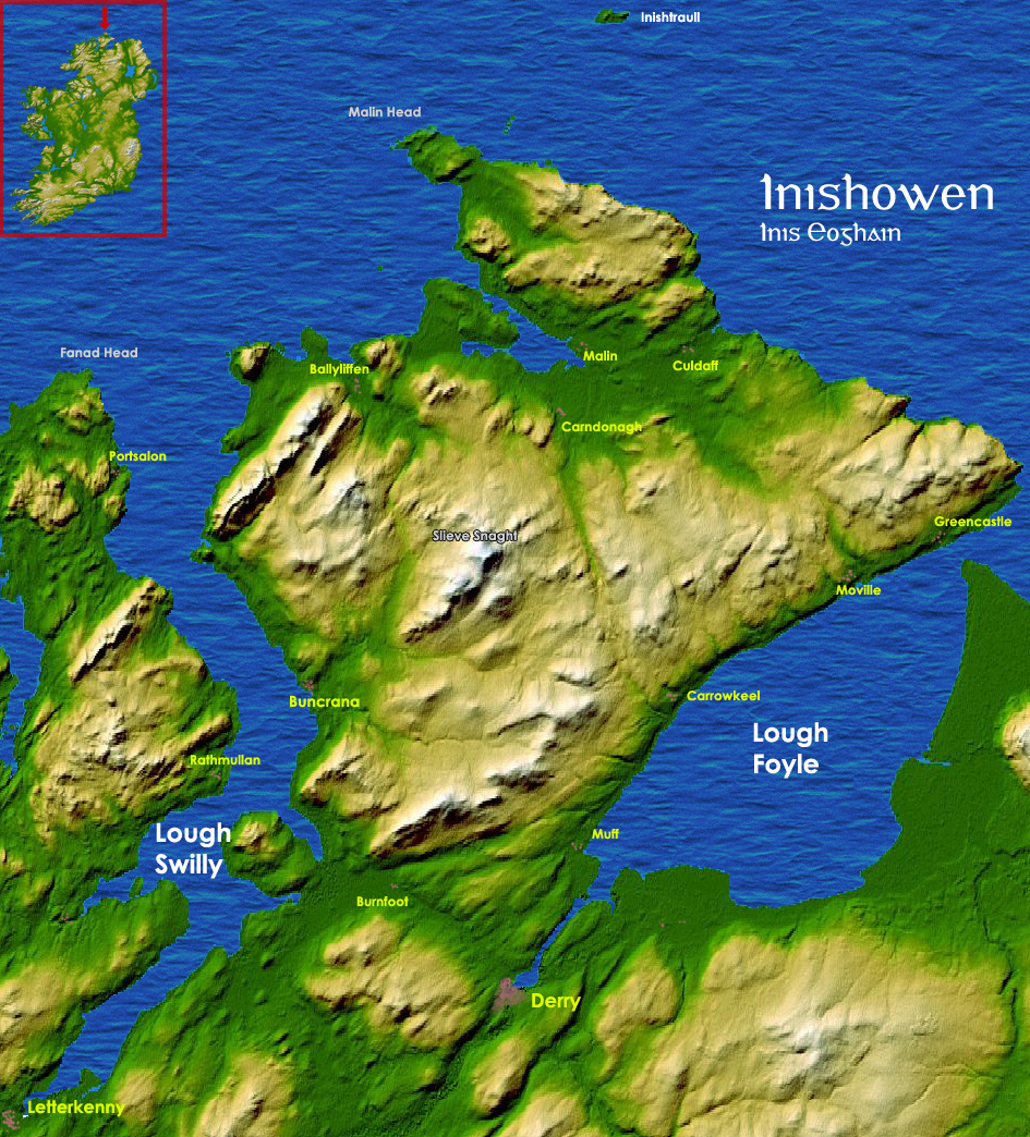 Inishowen (.it)